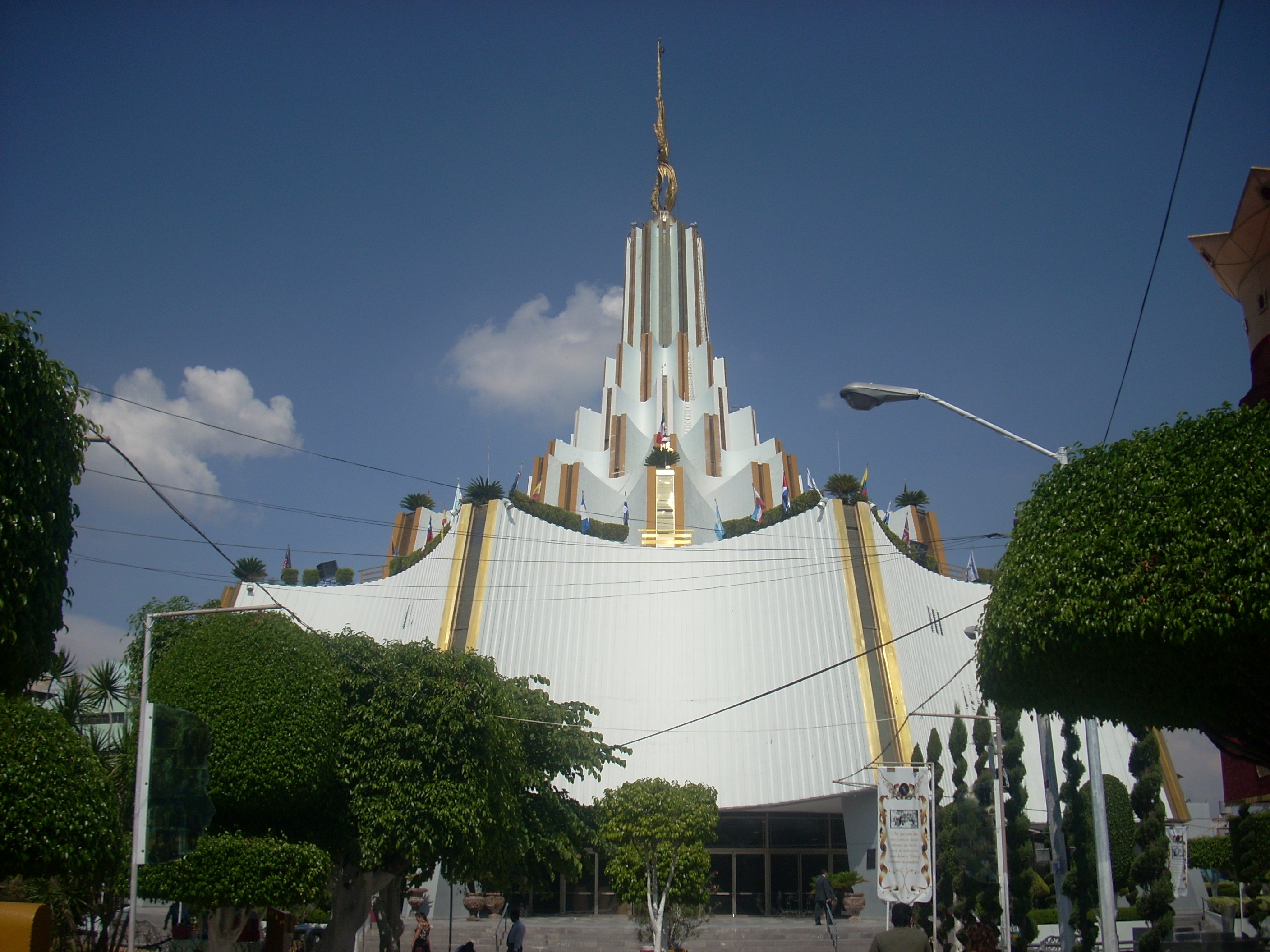 International headquarters of La Luz del Mundo Church at Glorieta Central No. 1, Hermosa Provincia, Guadalajara, Jalisco, México.